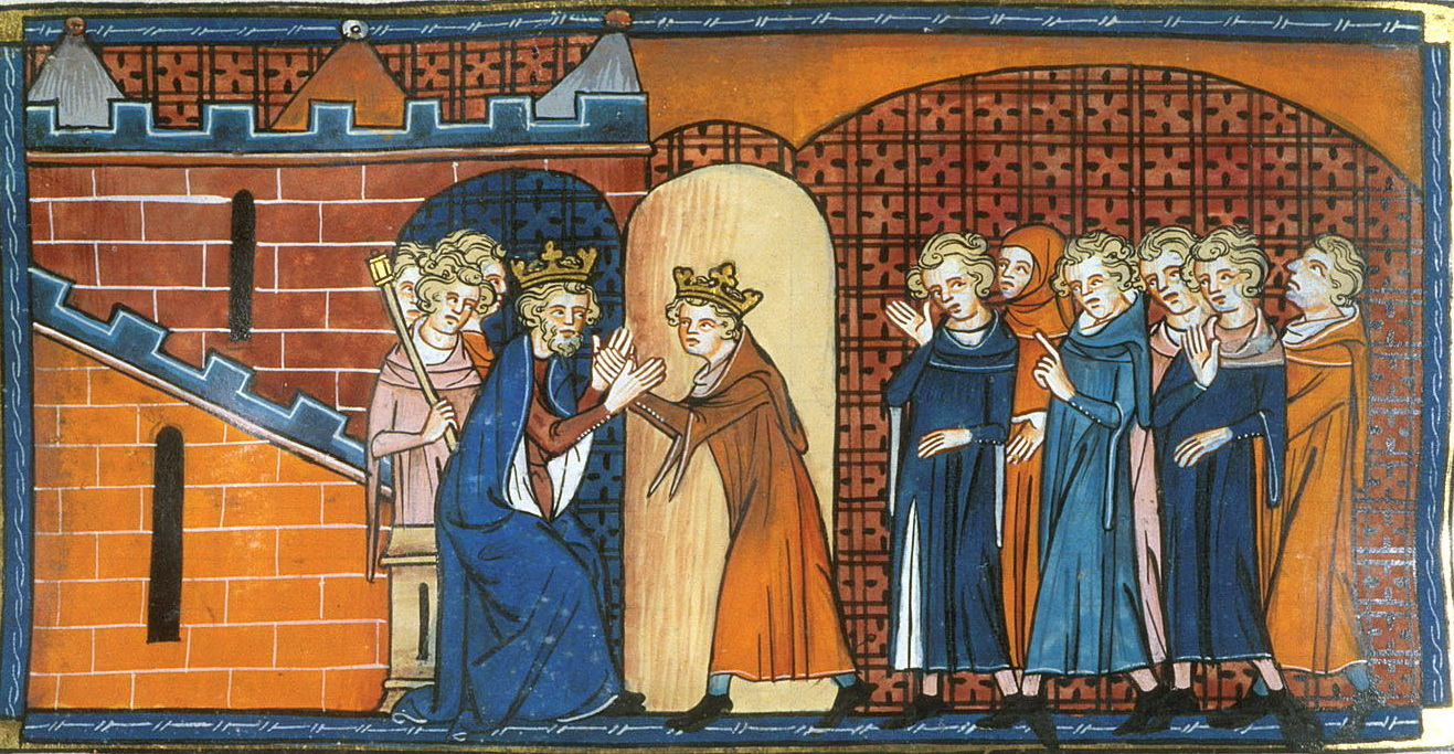 Arthur I of Britain doing homage to Philip II Augustus of France. (British Library, Royal 16 G VI f. 361v)